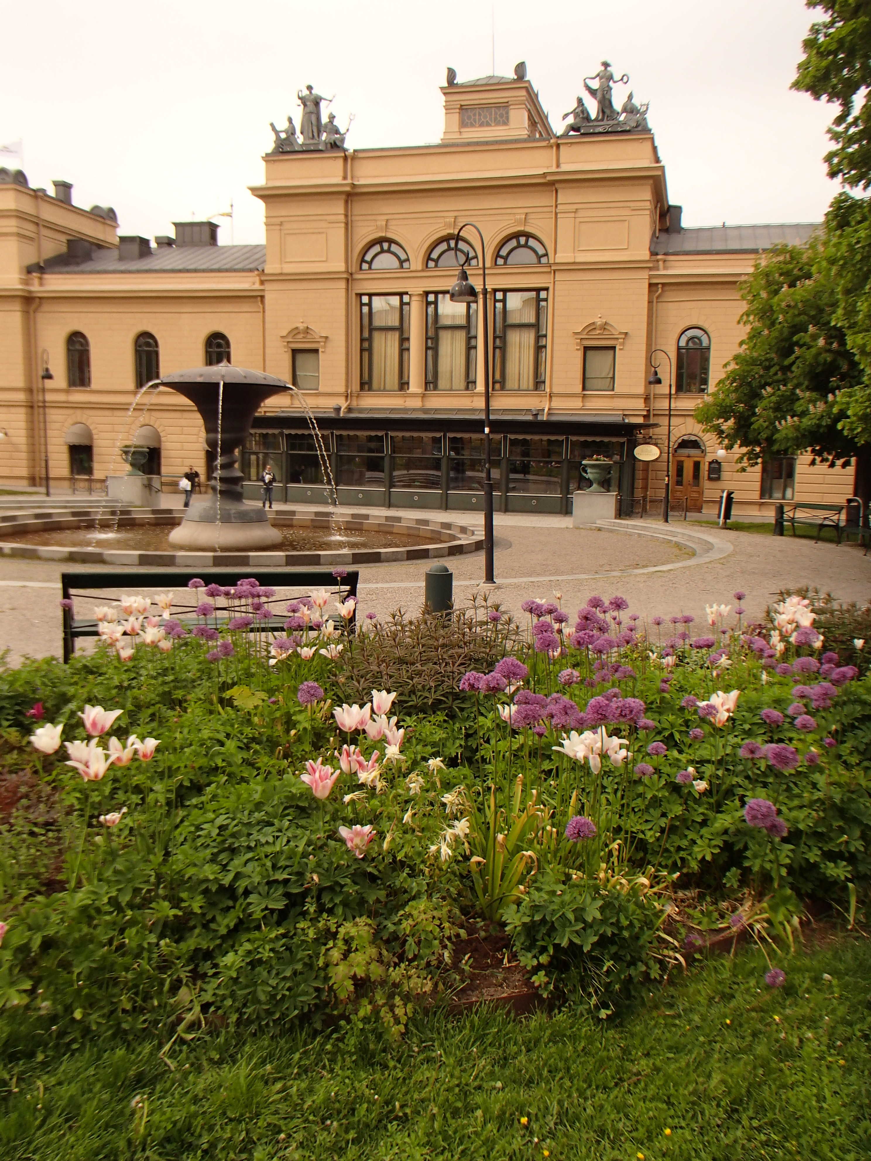 The city hall or "Stadshuset" at Rådhusgatan 22 in Sundsvall